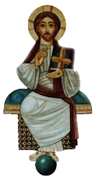 Christ - Coptic Art